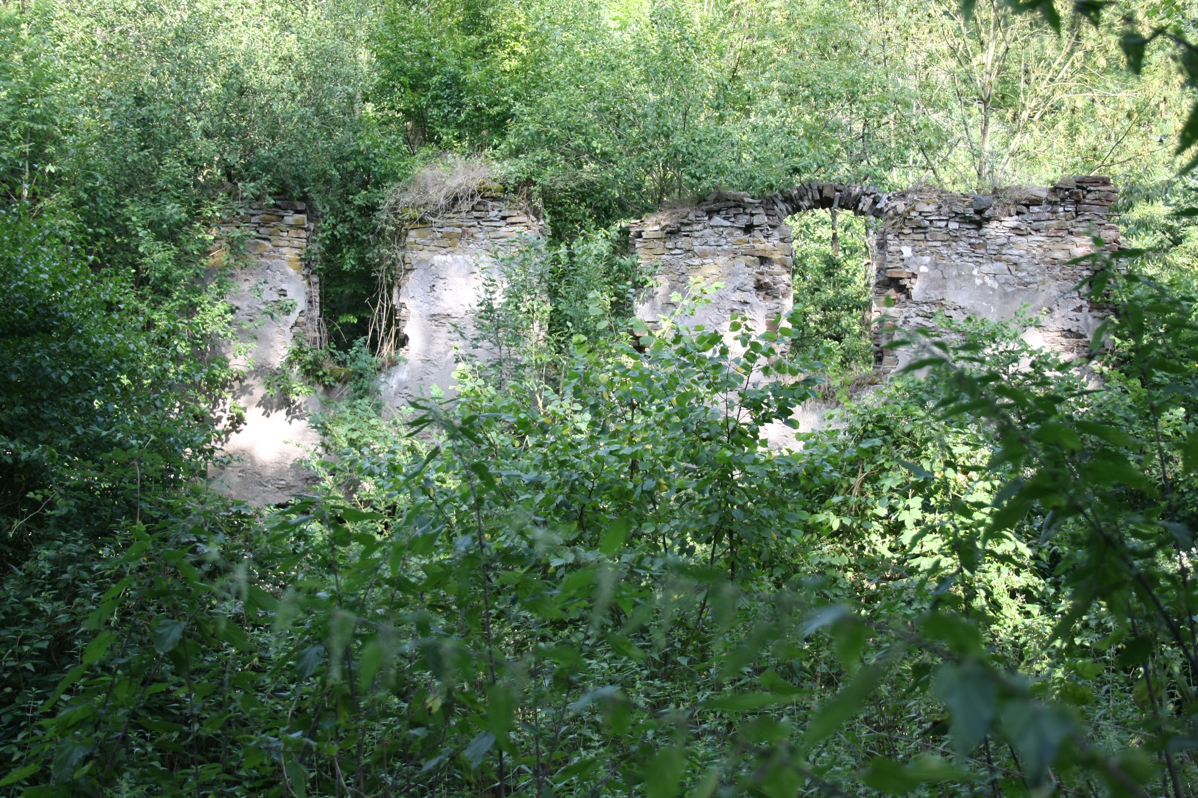 Ruins of the carmélite monastery of Bad Tönisstein, founded 1465